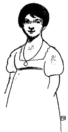 Stylized drawing based on the "Rice portrait", which almost certainly does not depict Jane Austen (though sometimes claimed to do).